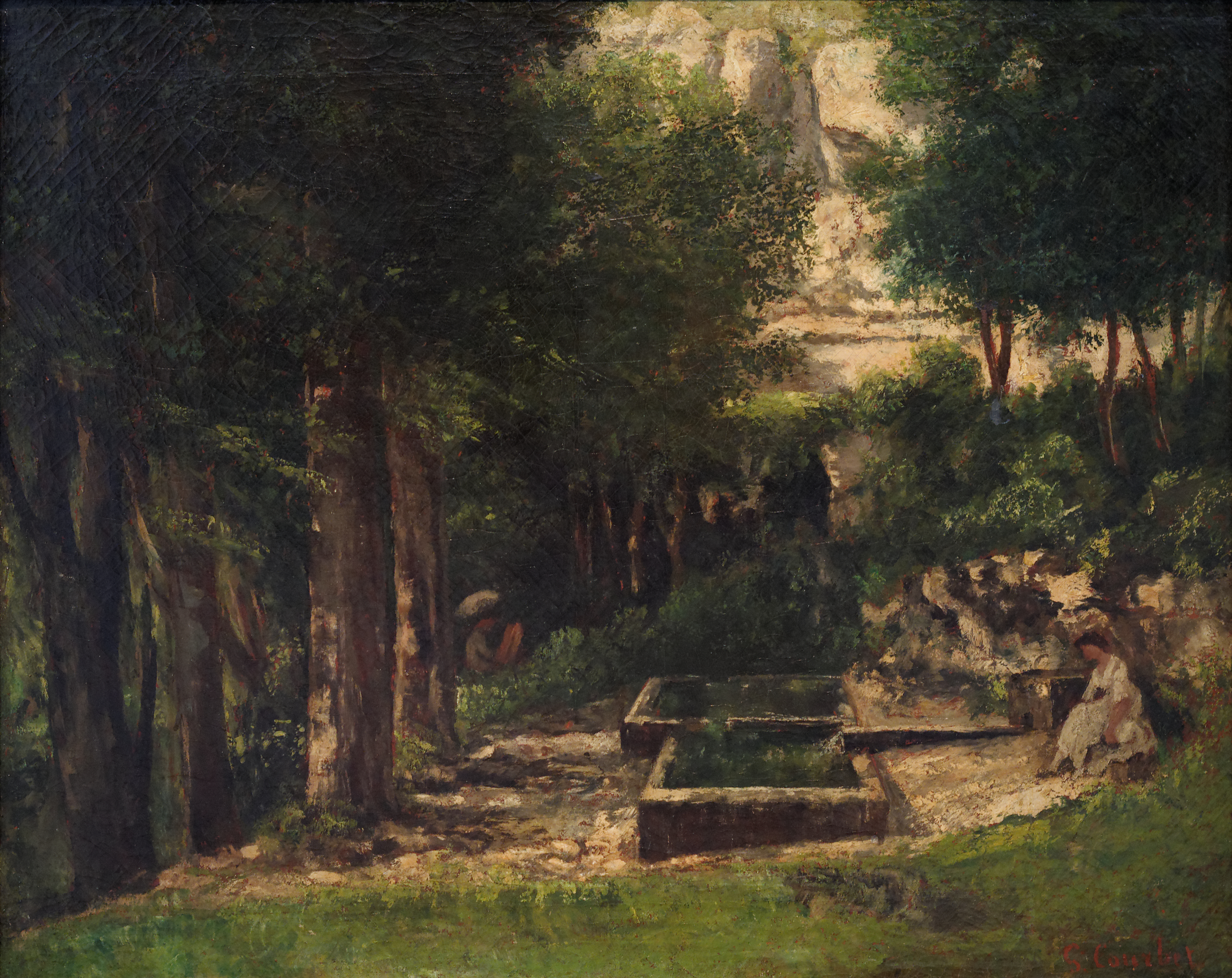 The Spring in Fouras (A Painter with his Model), Gustave Courbet 1863. Budapest Museum of Fine Arts. Collection of András Herzog, 1945